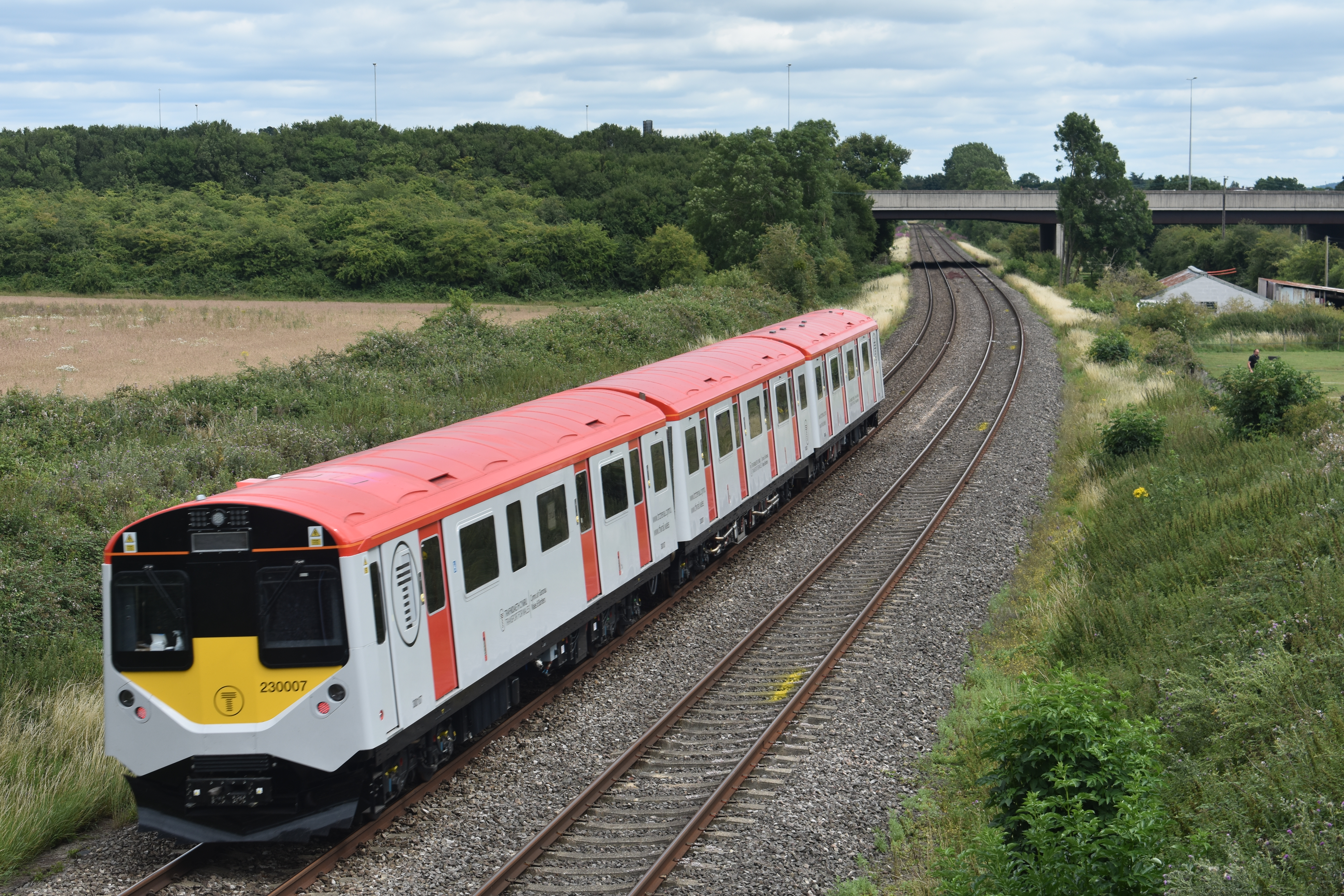 A class 230 on test near Worcester in July 2020